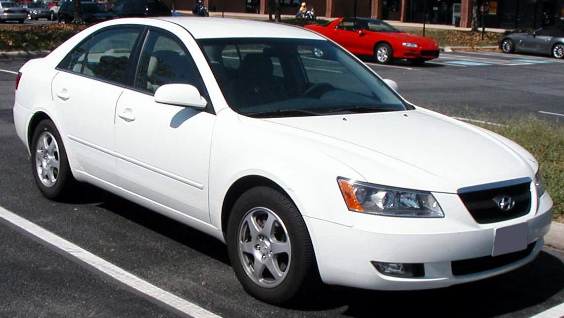 2006-2007 Hyundai Sonata photographed in USA.